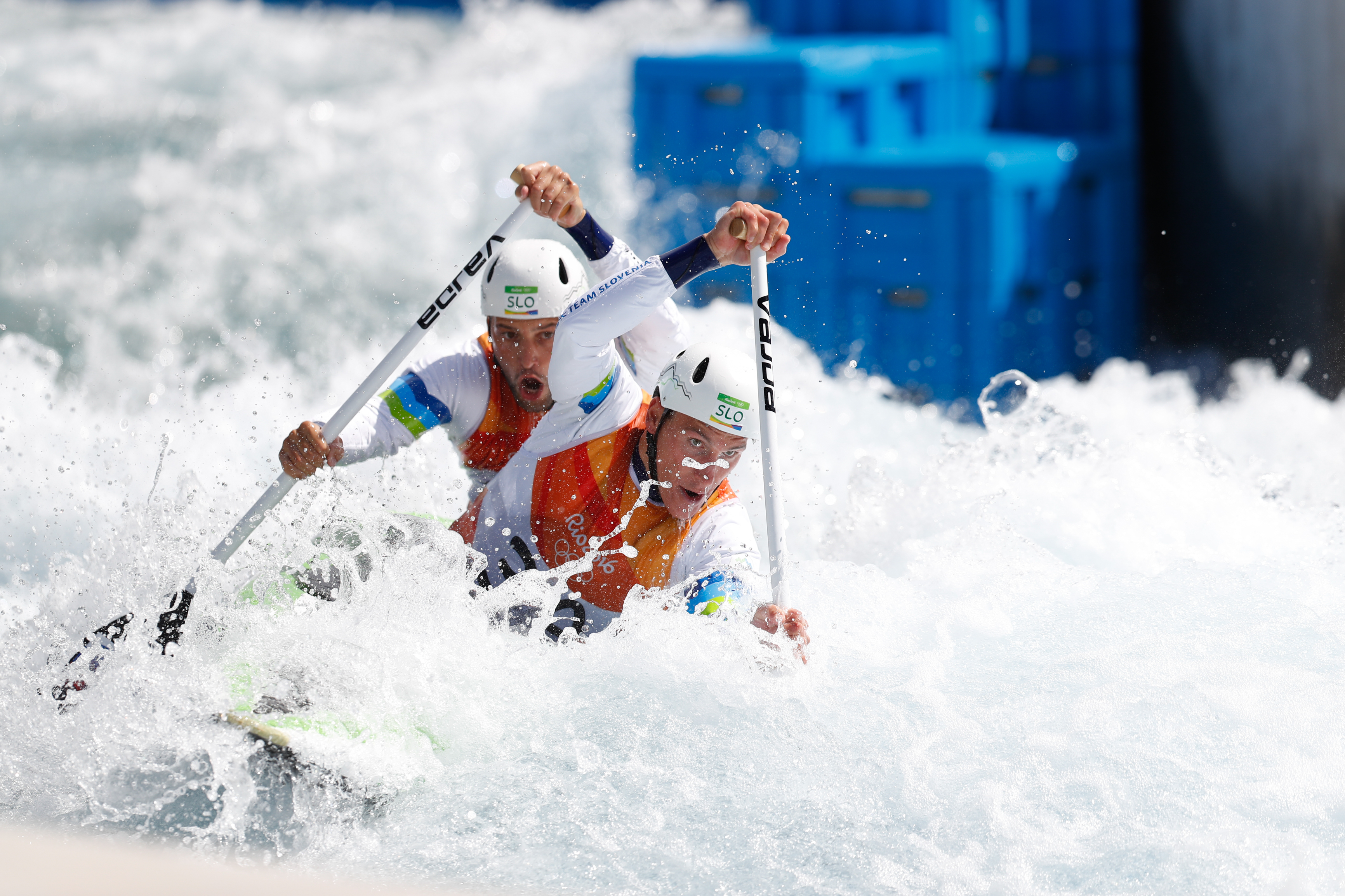 Rio de Janeiro - Eslovenos Luka Bosic e Saso Taljat disputam canoagem slalom categoria C2 nos Jogos Olímpicos Rio 2016 , no X Park em Deodoro. (Fernando Frazão/Agência Brasil)